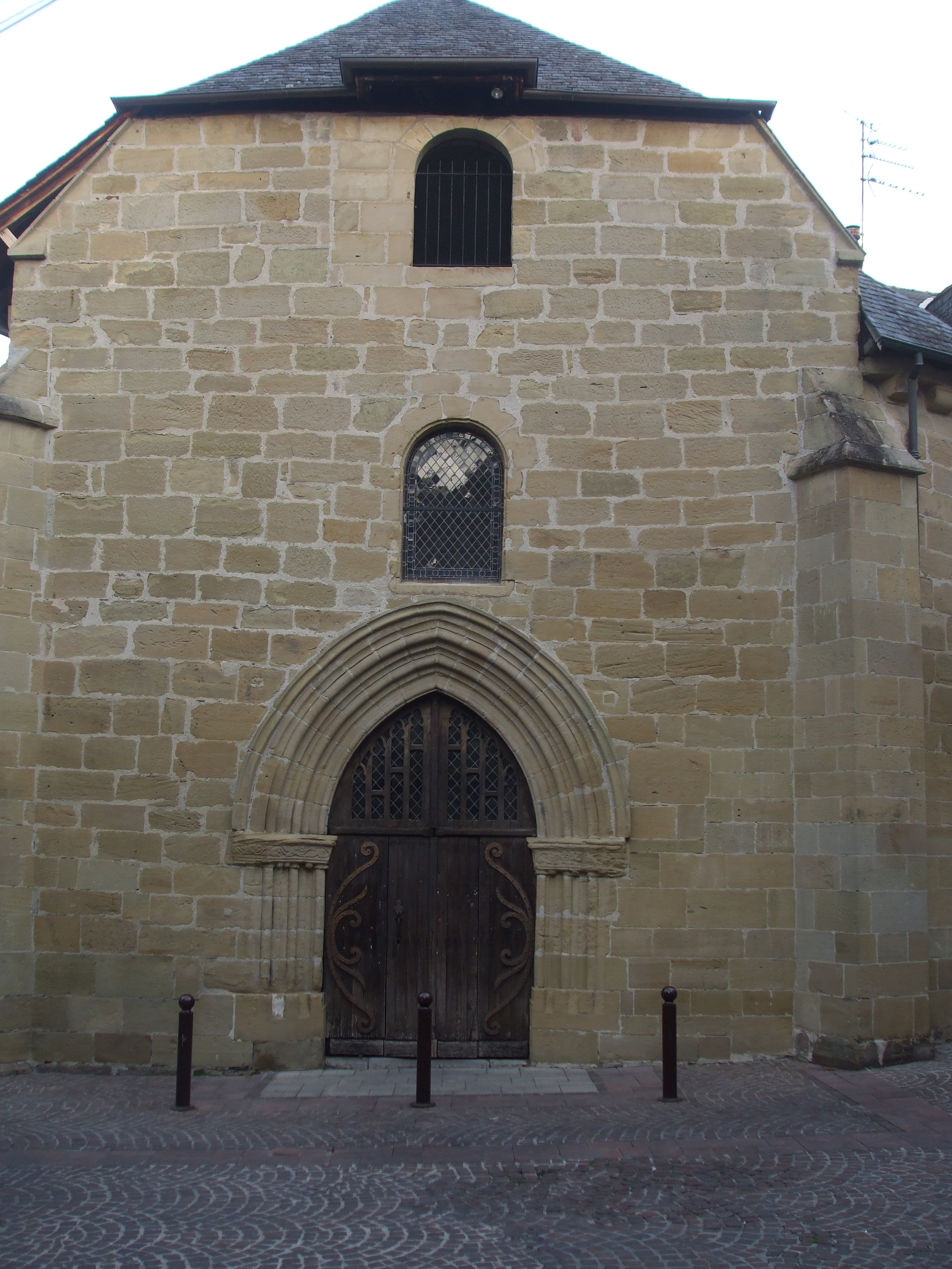 Chapel Saint-Libéral,XV è siècle, Brive-la-Gaillarde, France, with its limousin roman style